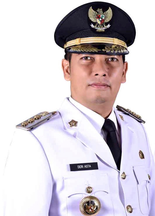 Deri Asta, Mayor of Sawahlunto, West Sumatra, Indonesia period 2018—2023.